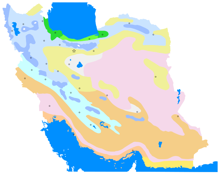 Iran simplified climate map Caspian Mild Mountains Desert and Semi-Desert